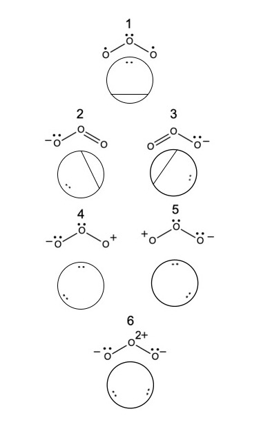 Possible VB structures and Rumer circle's of ozone